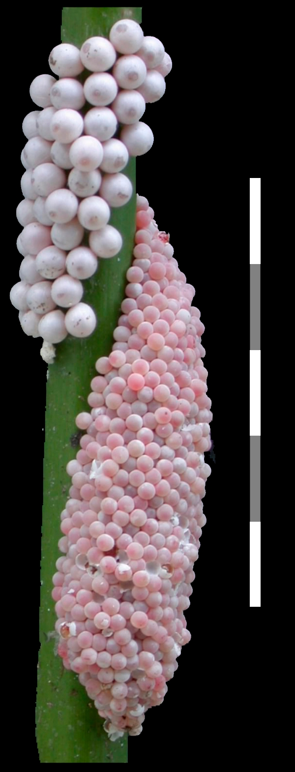 photo of eggs of Pomacea paludosa (top) and Pomacea isularum (down). Scale Bar: 5 cm.